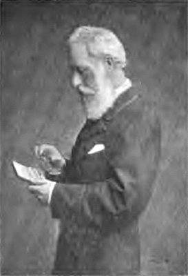 James Carnegie (1827 – 1905), 9th Earl of Southesk